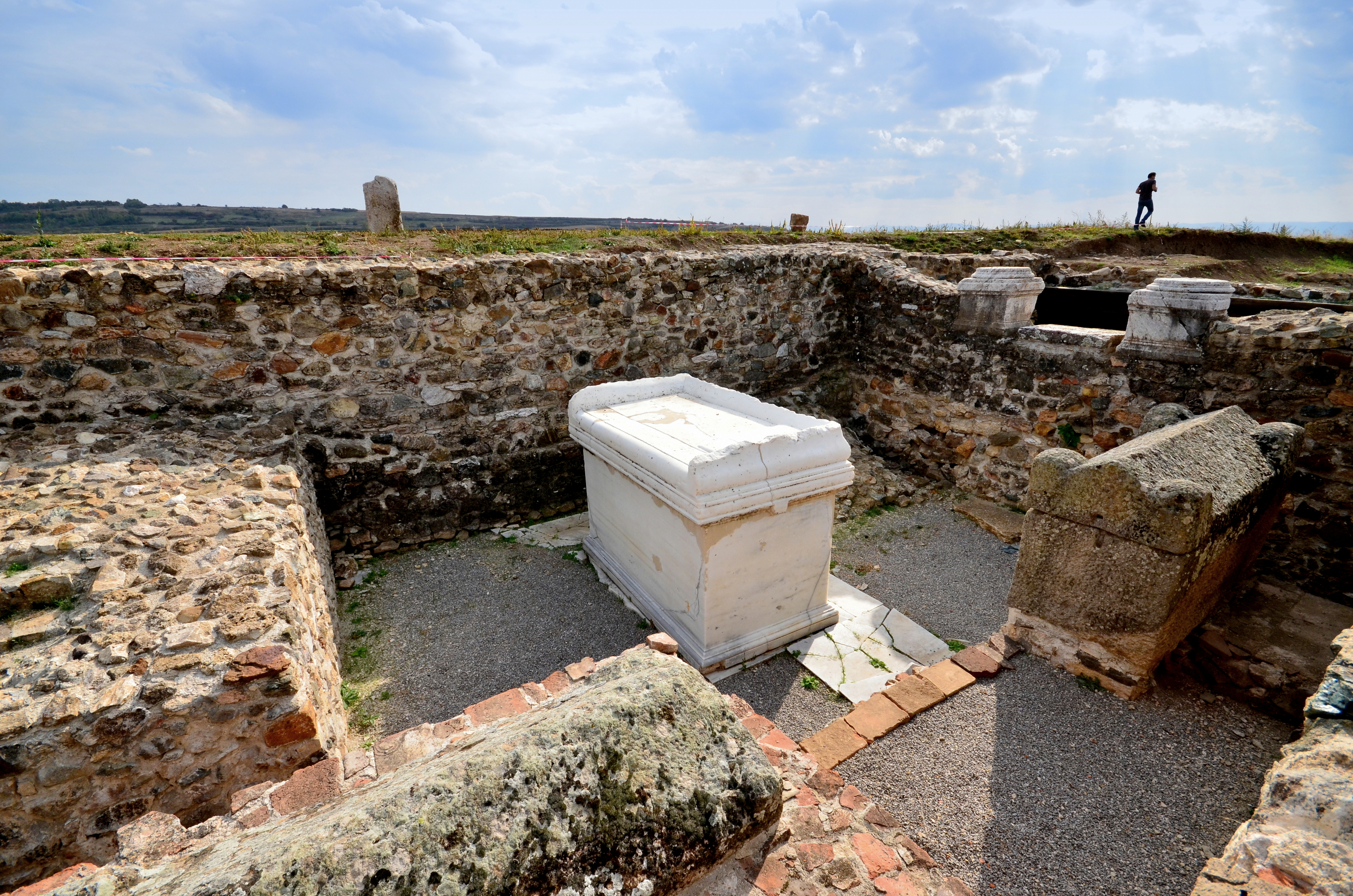 Ulpiana